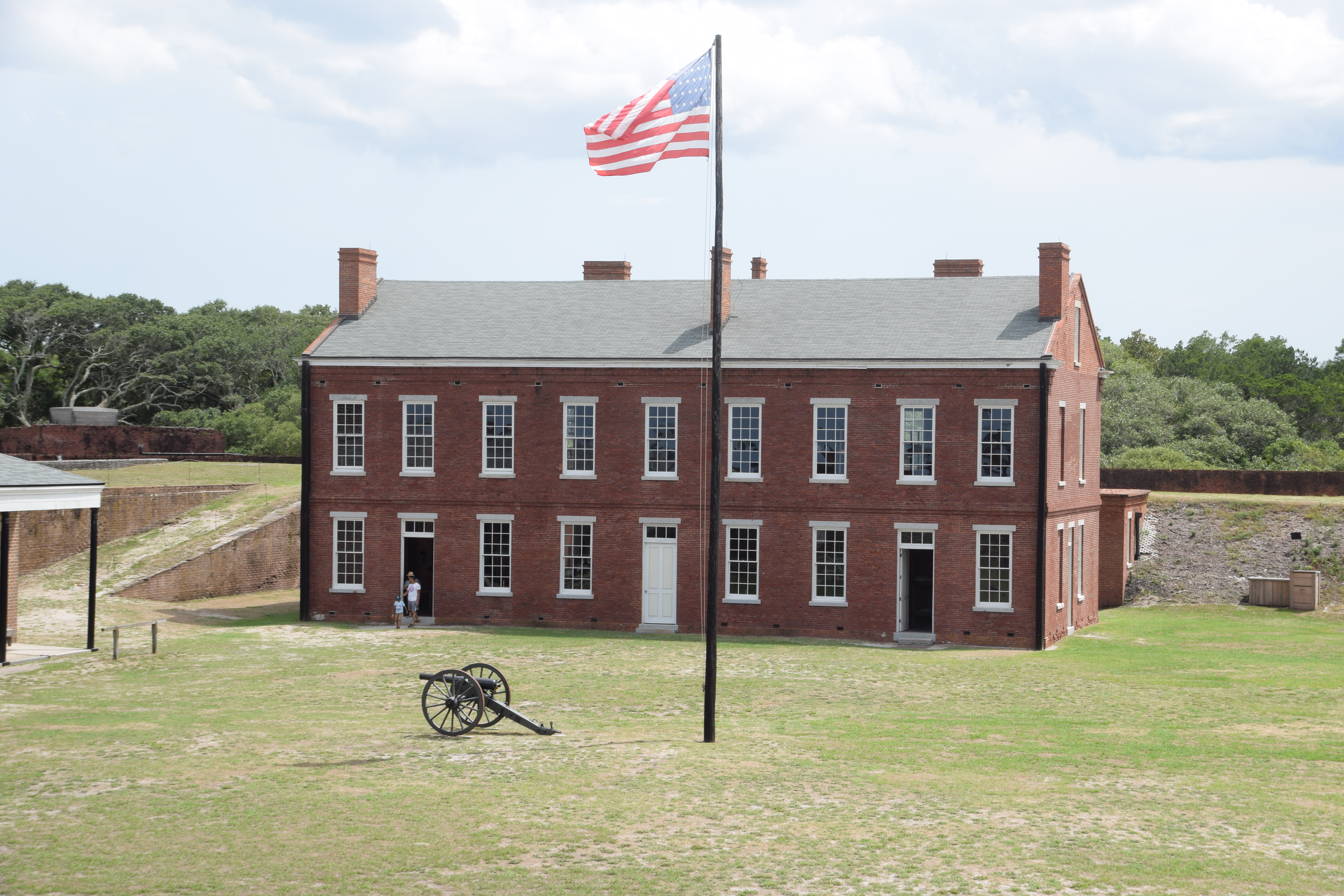 Fort Clinch in Nassau Coumty, Florida, US